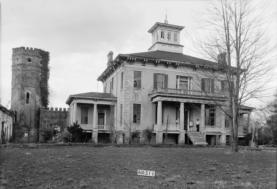 Rocky Hill, State Highway 20, Courtland vicinity, Lawrence County, AL. FRONT AND SIDE VIEW, S.W.